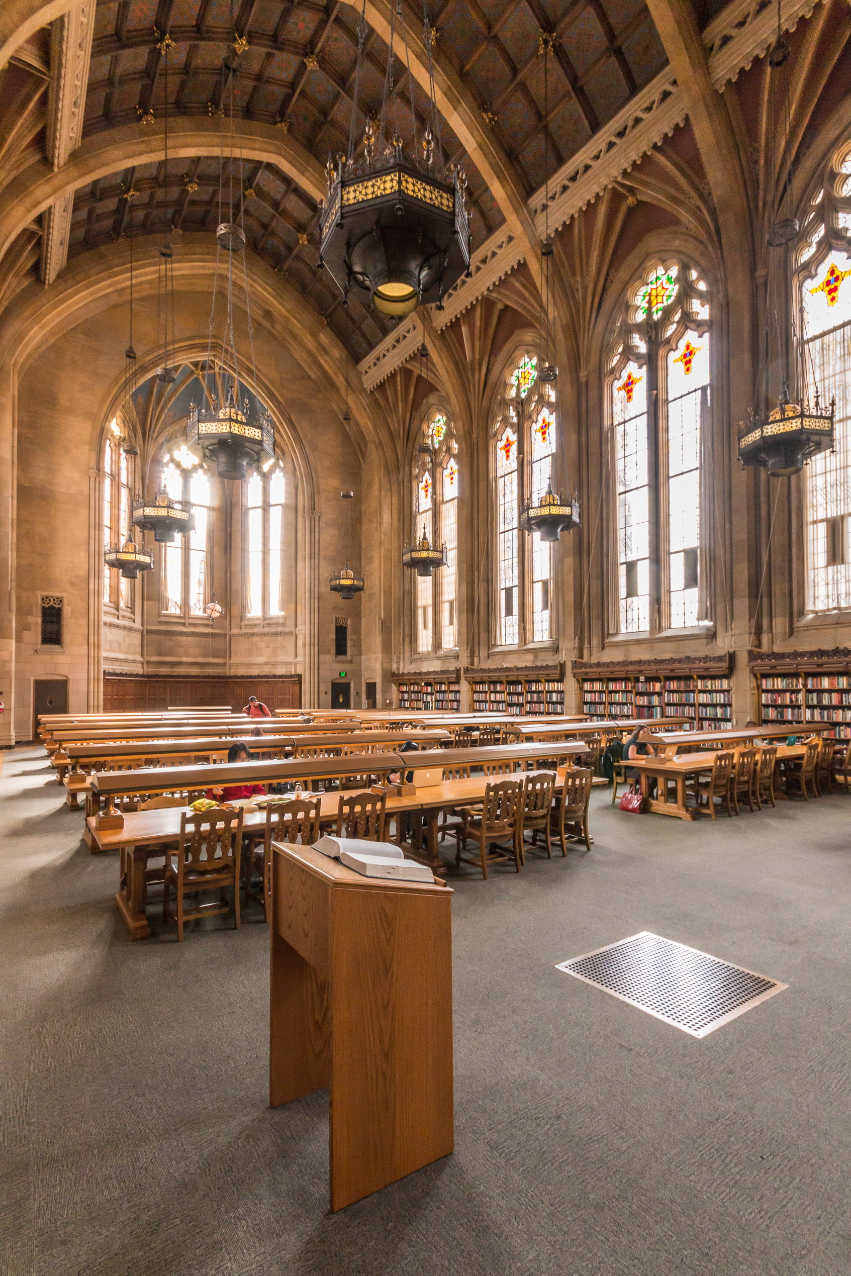 The Reading Room of the Suzzallo Library of the University of Washington